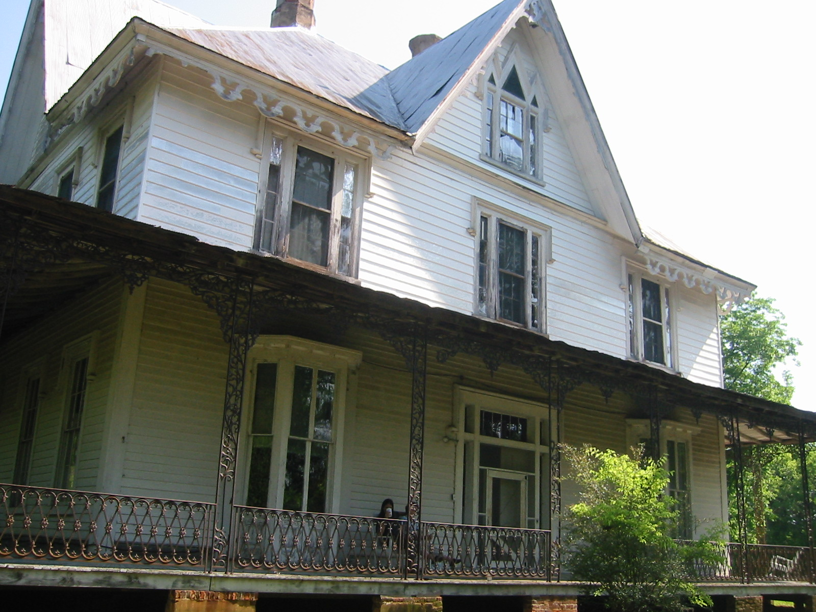 Fairhope Plantation (built c. 1857) near Uniontown, Perry County, Alabama. Detail of front facade.